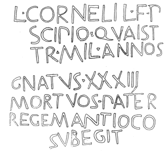 inscription from Scipio's grave, rome (check the letters on this map)